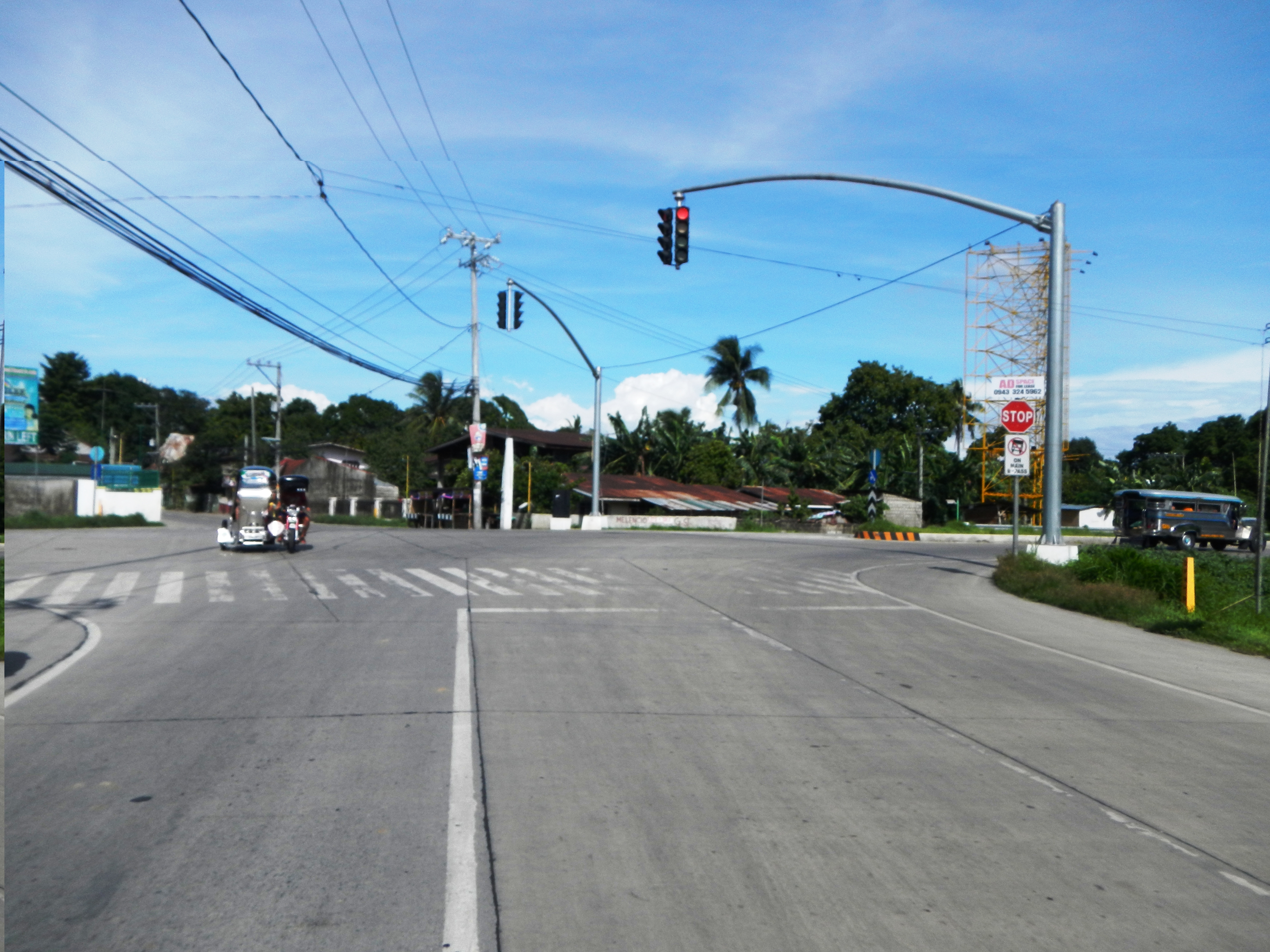 Bustos, Bulacan province (Barangay Liciada, Bustos, Bulacan is separted by its Welcome road-sign and Arch from Barangay Malamig, Bustos, Bulacan, its Chapel and Barangay Hall along the San-Rafael-Bustos-Plaridel-Balagtas by-pass road).